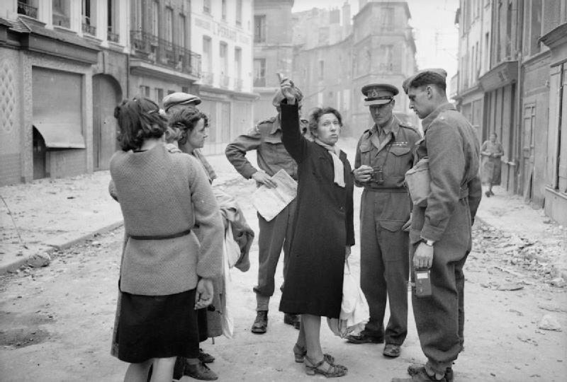 Capture of Caen Lieutenant General J T Crocker, 1st Corps Commander, talking to some of the liberated civilians during his tour of Caen.